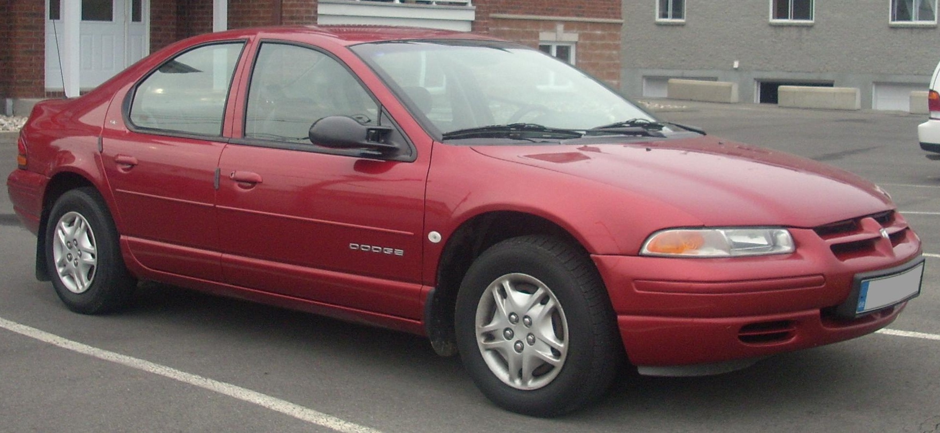 1999 Dodge Stratus photographed in Vaudreuil-Dorion, Quebec, Canada.